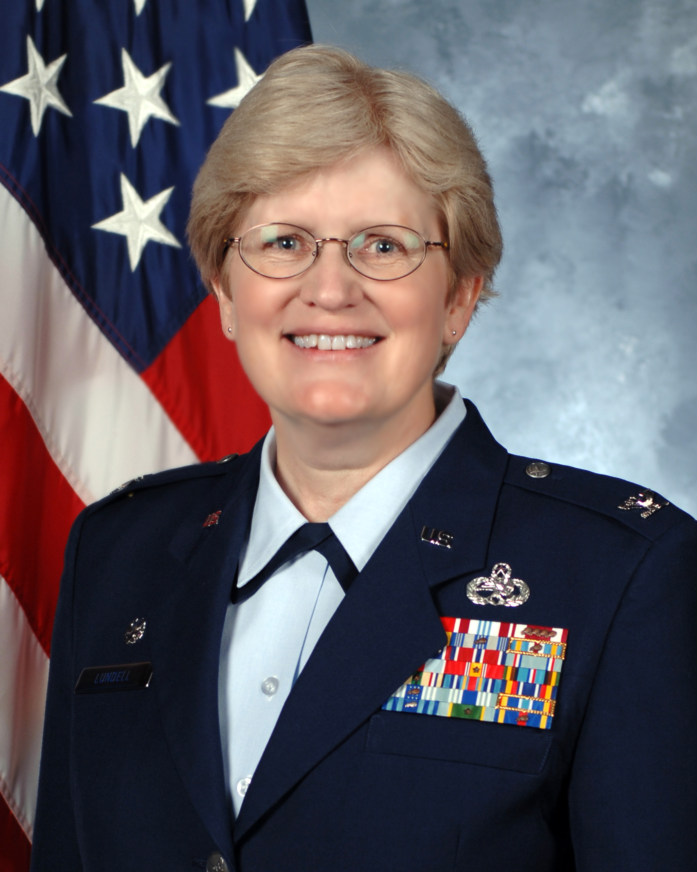 United States Air Force Colonel Cynthia Lundell, commander of the 5th Maintenance Group at Minot Air Force Base, N.D. at the time of the 2007 United States Air Force nuclear weapons incident.